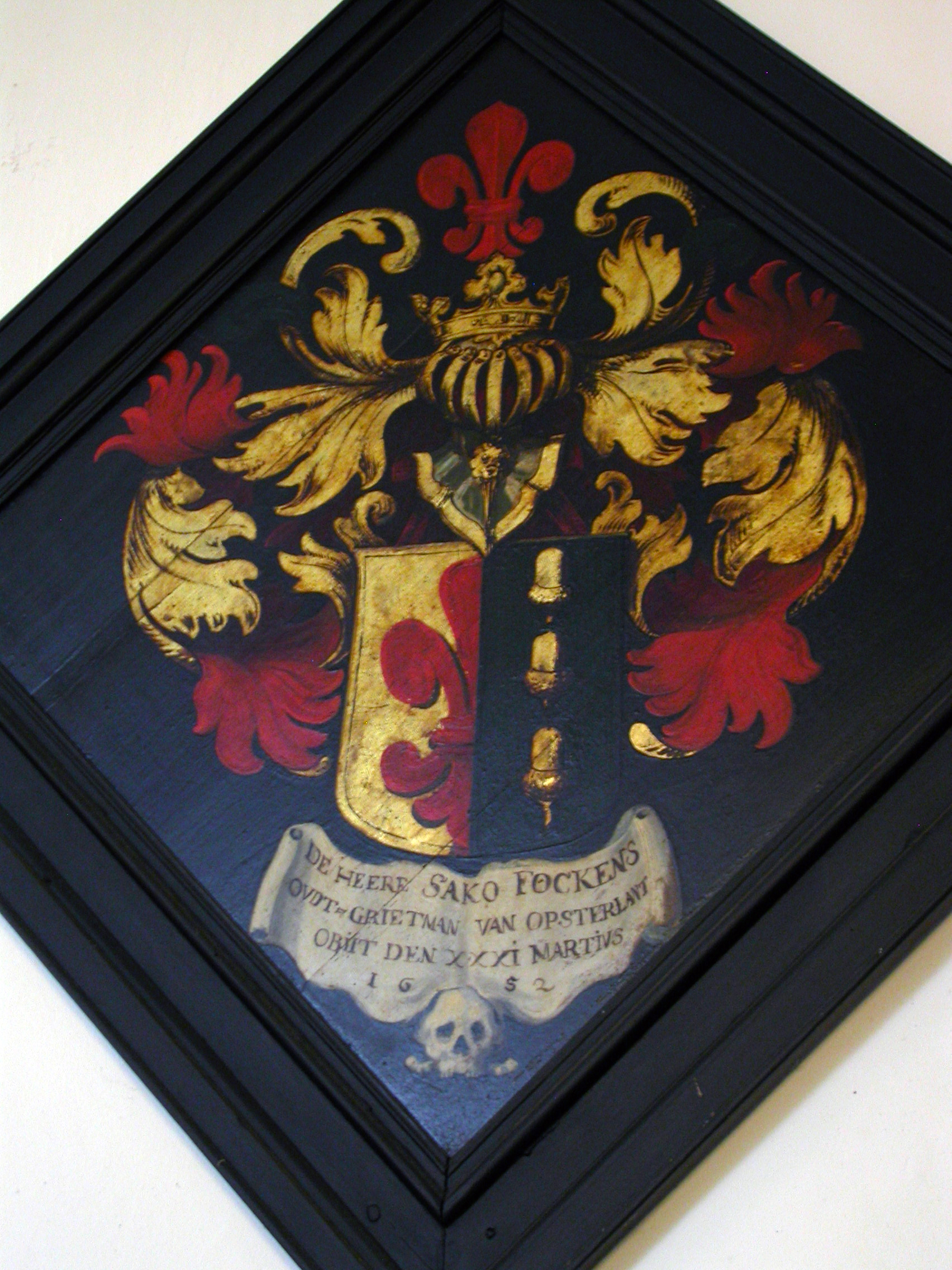 Funerary hatchment of Saco Fockens (c. 1599-1652) in the church of Nuis, Groningen.